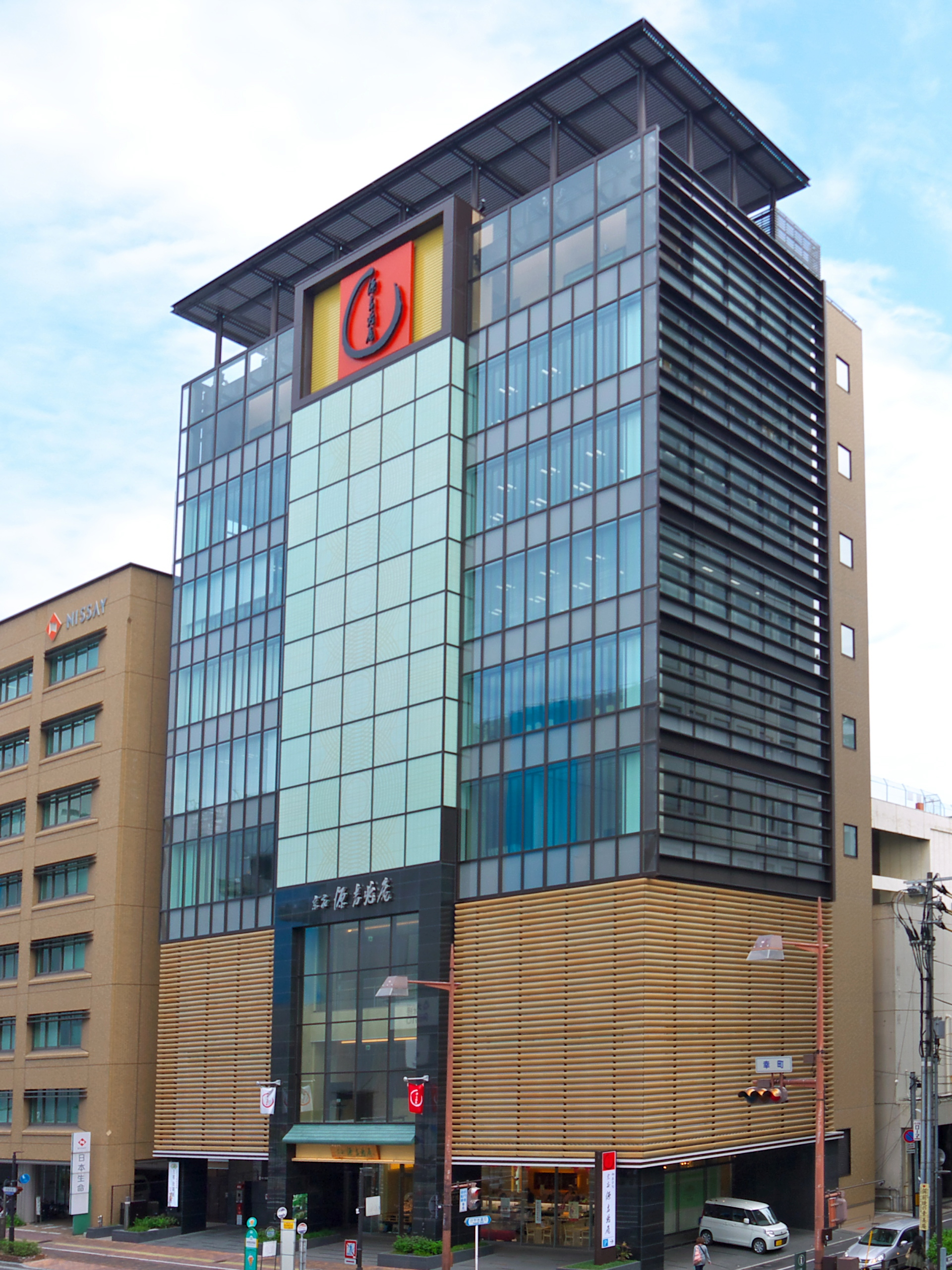 "Minamoto Kitchoan" Headquarters (Wagashi shop and Kitchoan Museum) in Kita-ku, Okayama, Japan